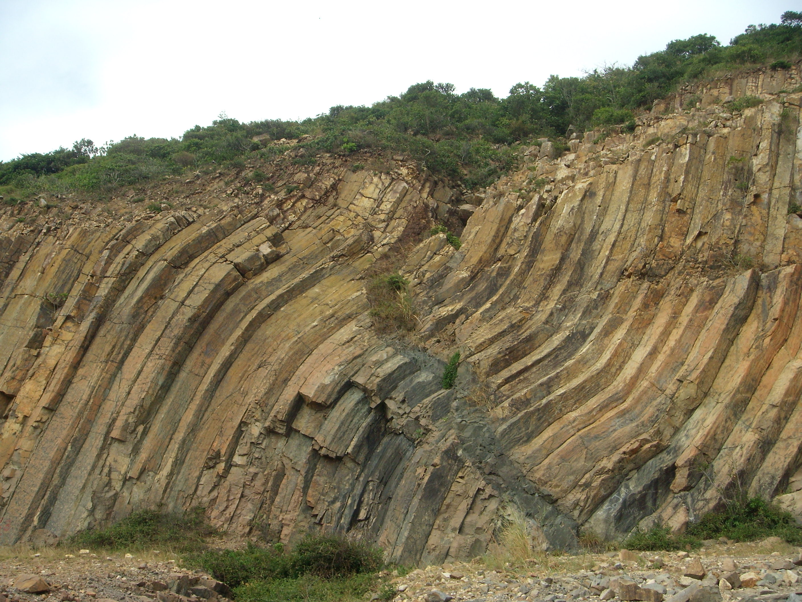 S-shaped columnar rhyolitic tuff in Hong Kong High Island Reservoir, cut by a younger dyke of lamprophyre. Source of information about rhyolitic tuff is [1]